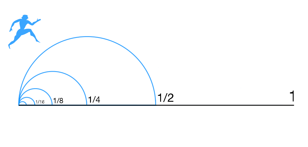 Zeno's paradoxes are a set of philosophical problems generally thought to have been devised by Greek philosopher Zeno of Elea (ca. 490–430 BC) to support Parmenides's doctrine that contrary to the evidence of one's senses, the belief in plurality and change is mistaken, and in particular that motion is nothing but an illusion. This image illustrates the original interpretation of the dichotomy paradox, and is derived from File:Zeno_Dichotomy_Paradox.png